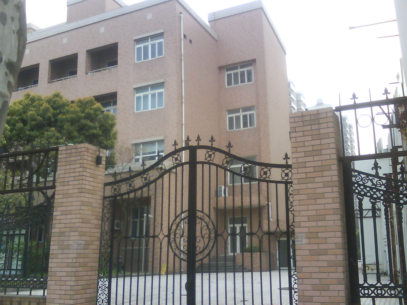 The South campus of Nanyang Model High School